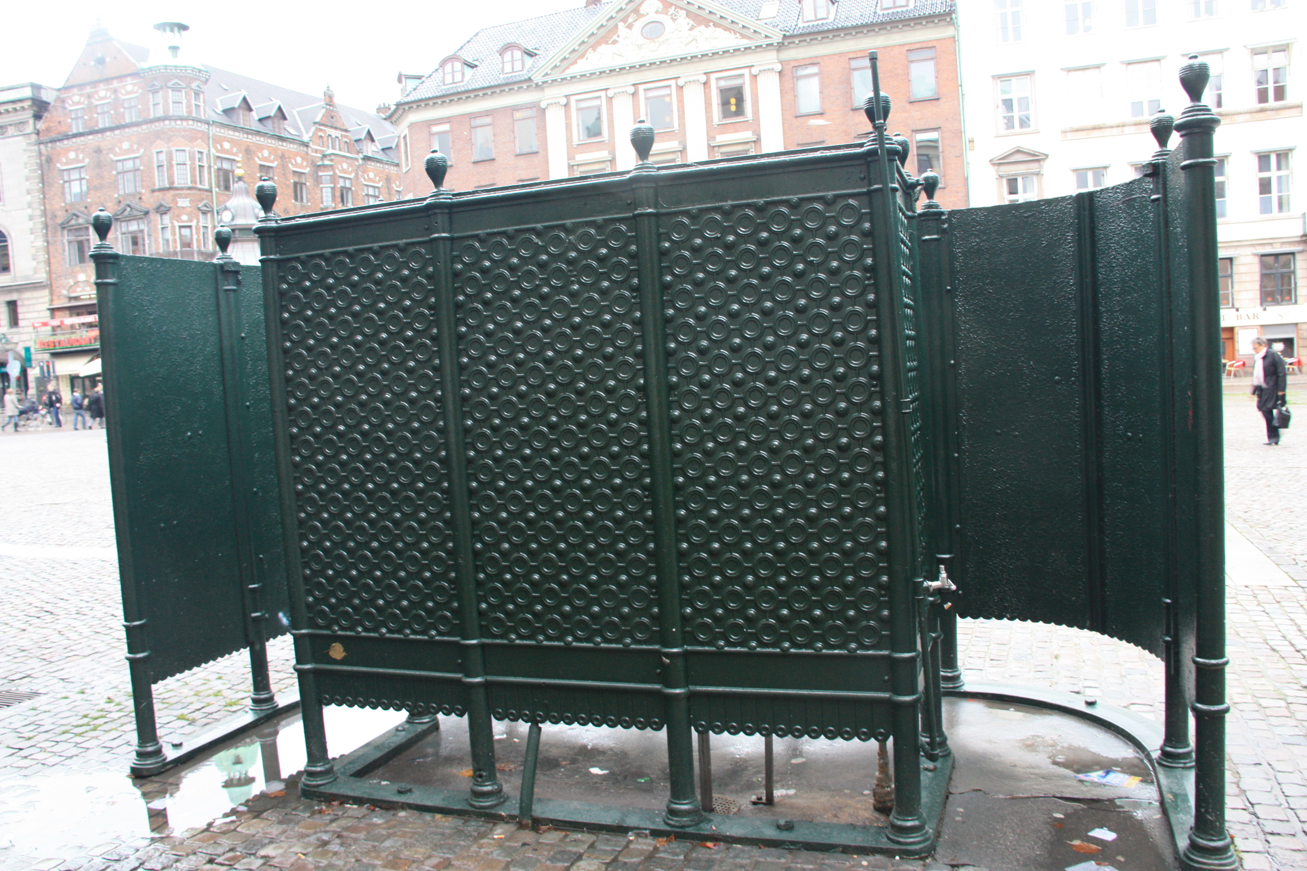 Pissoir (urinal) in cast-iron from Copenhagen. Almost extinct today